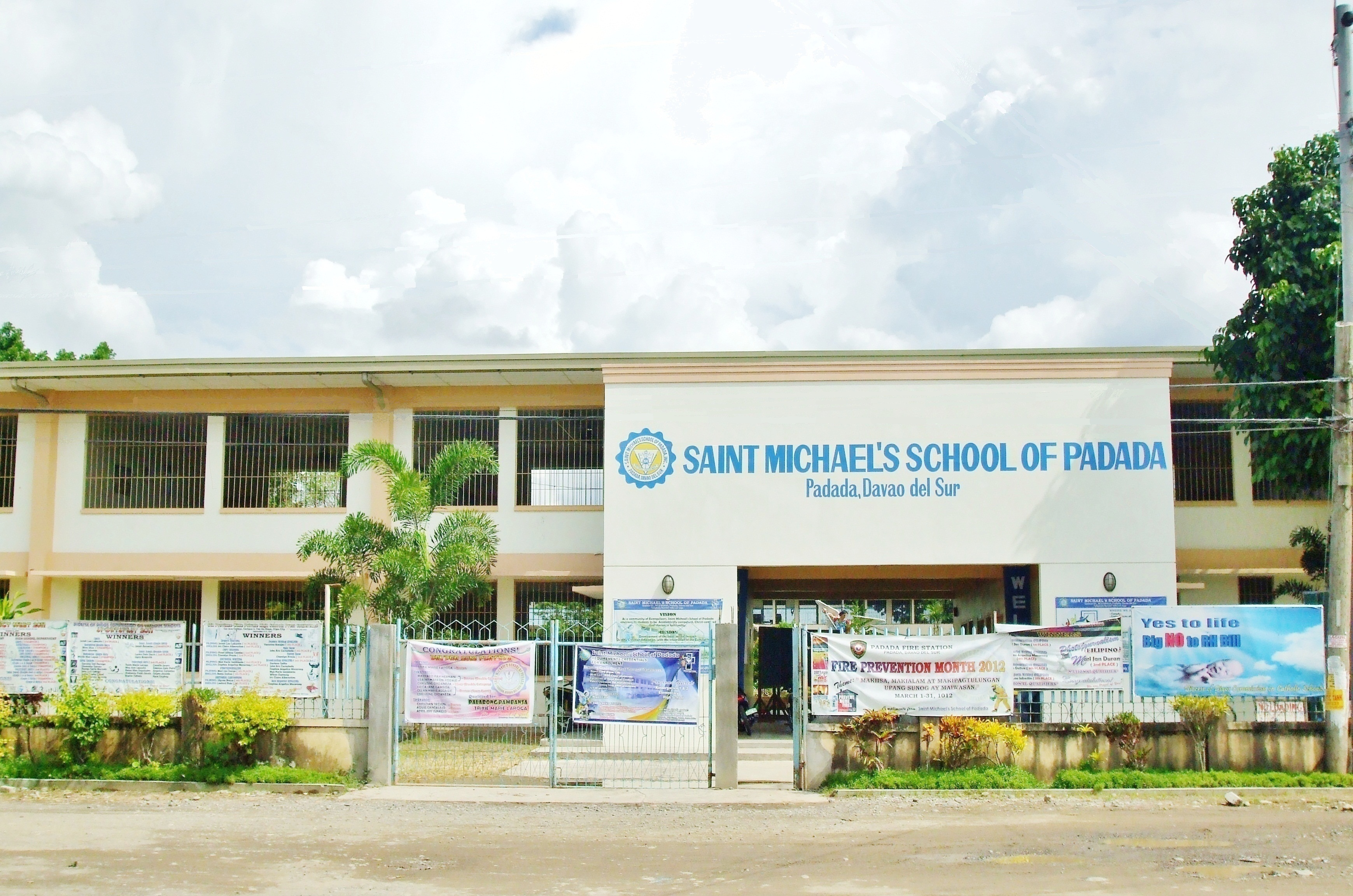 Main Entrance, Quezon St.